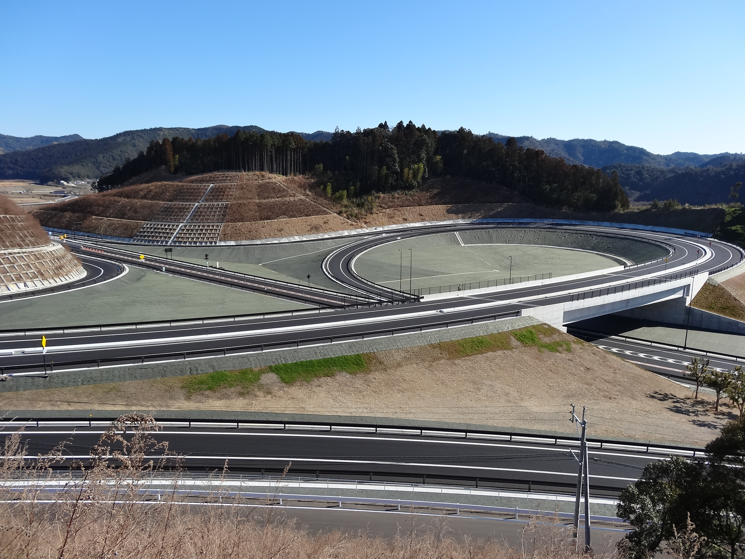 Overview of Kitagawa Interchange (under construction) on the Higashi-Kyushu Expressway in Nobeoka City, Miyazaki Prefecture, Japan